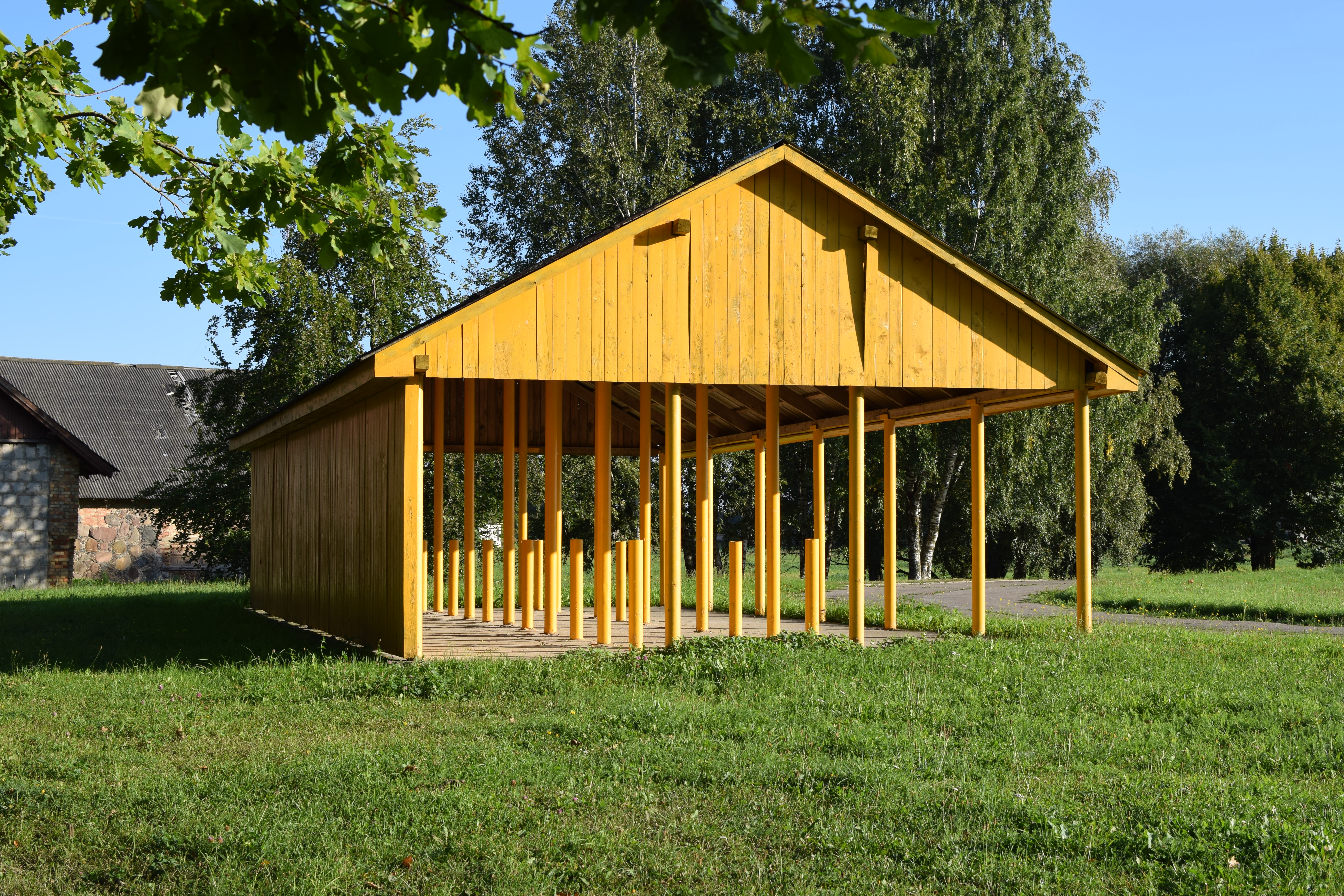 Auce (Auces novads)